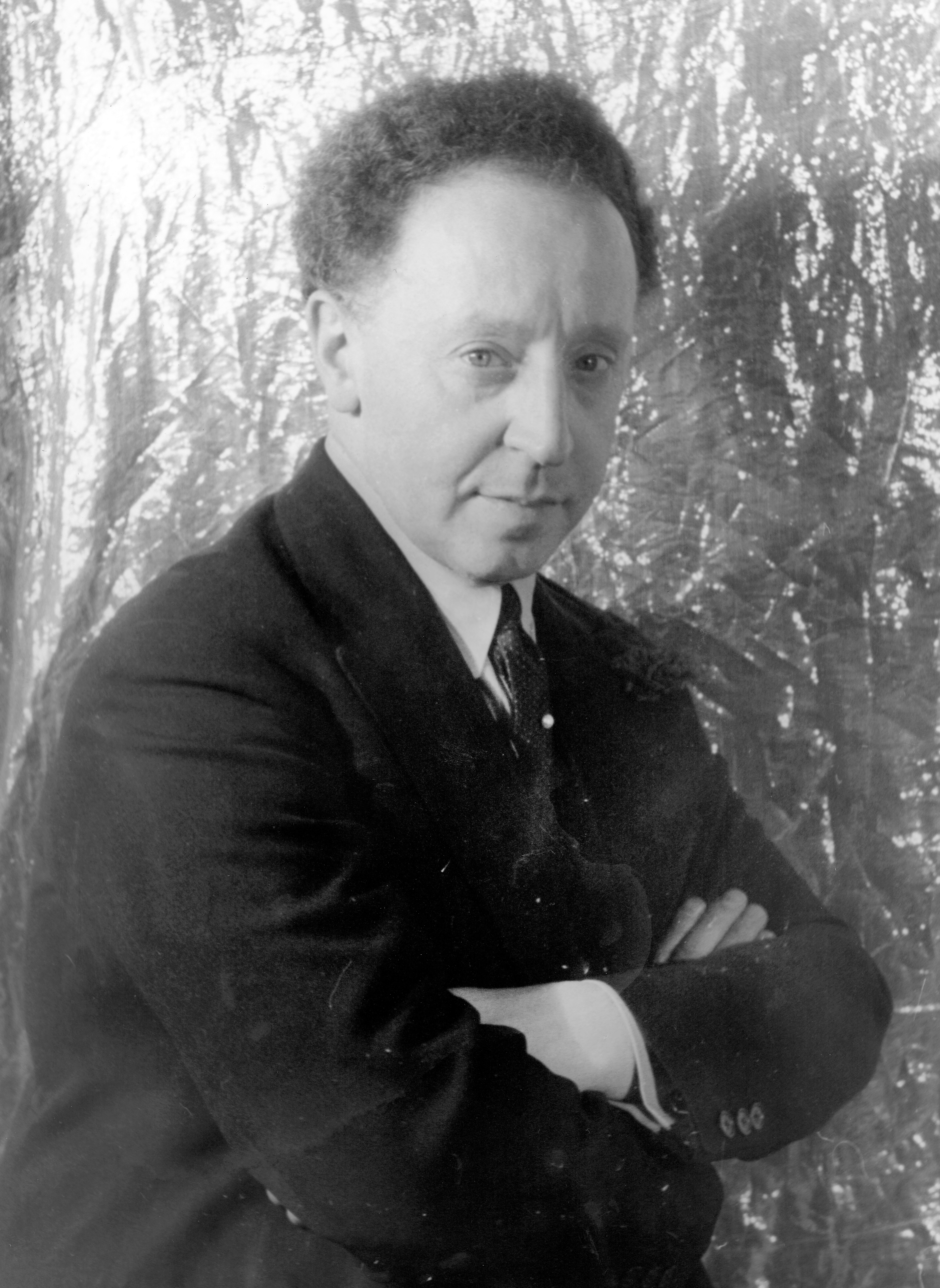 Portrait of Artur Rubinstein.